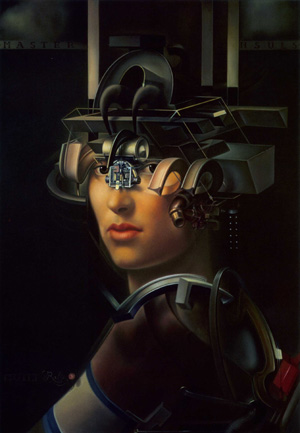 "Guilt". Oil on board.